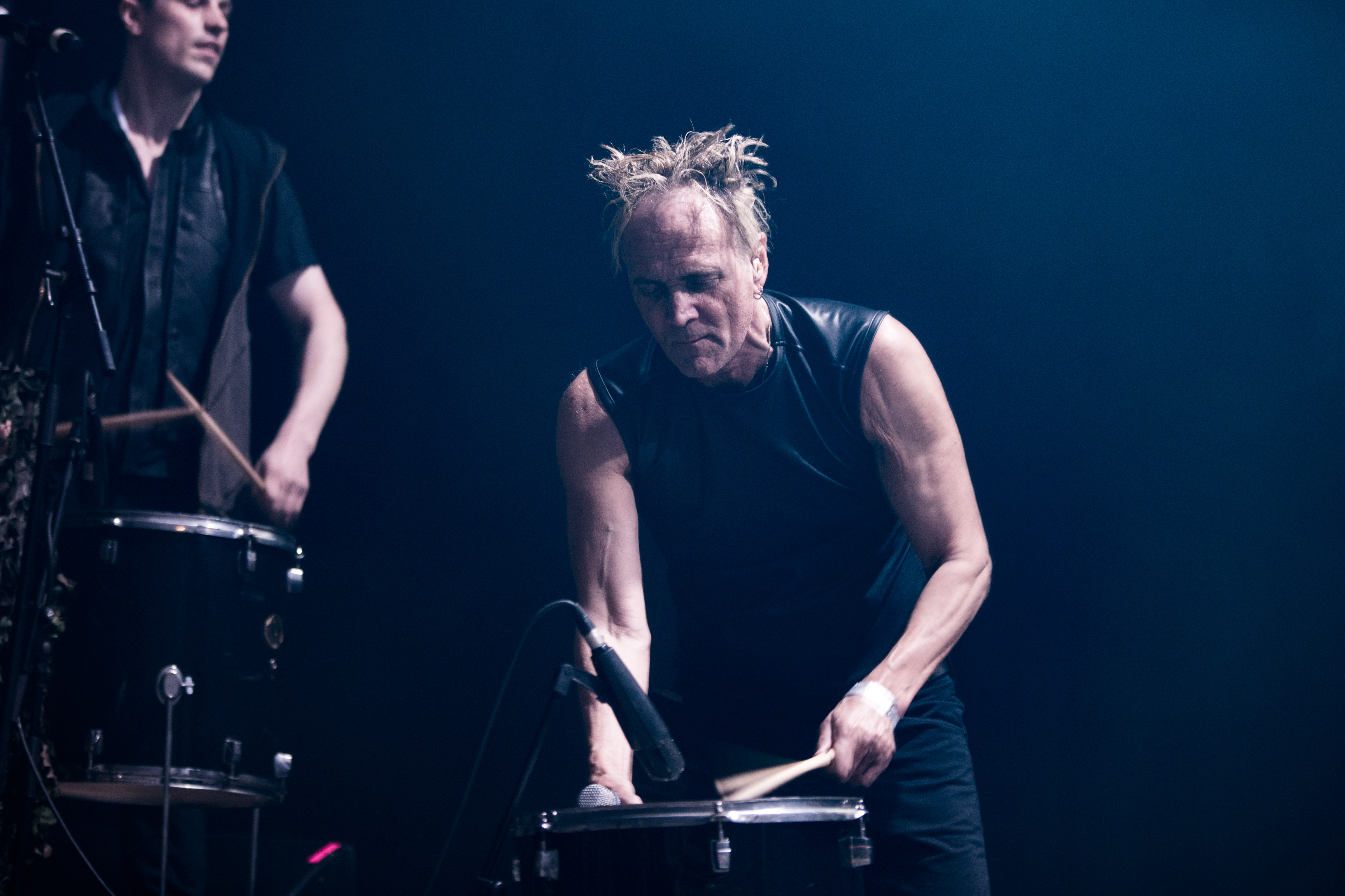 Frontline Assembly, E-Tropolis Festival 2016, Oberhausen Turbinenhalle Festivalsommer This photo was created with the support of donations to Wikimedia Deutschland in the context of the CPB project "Festival Summer".